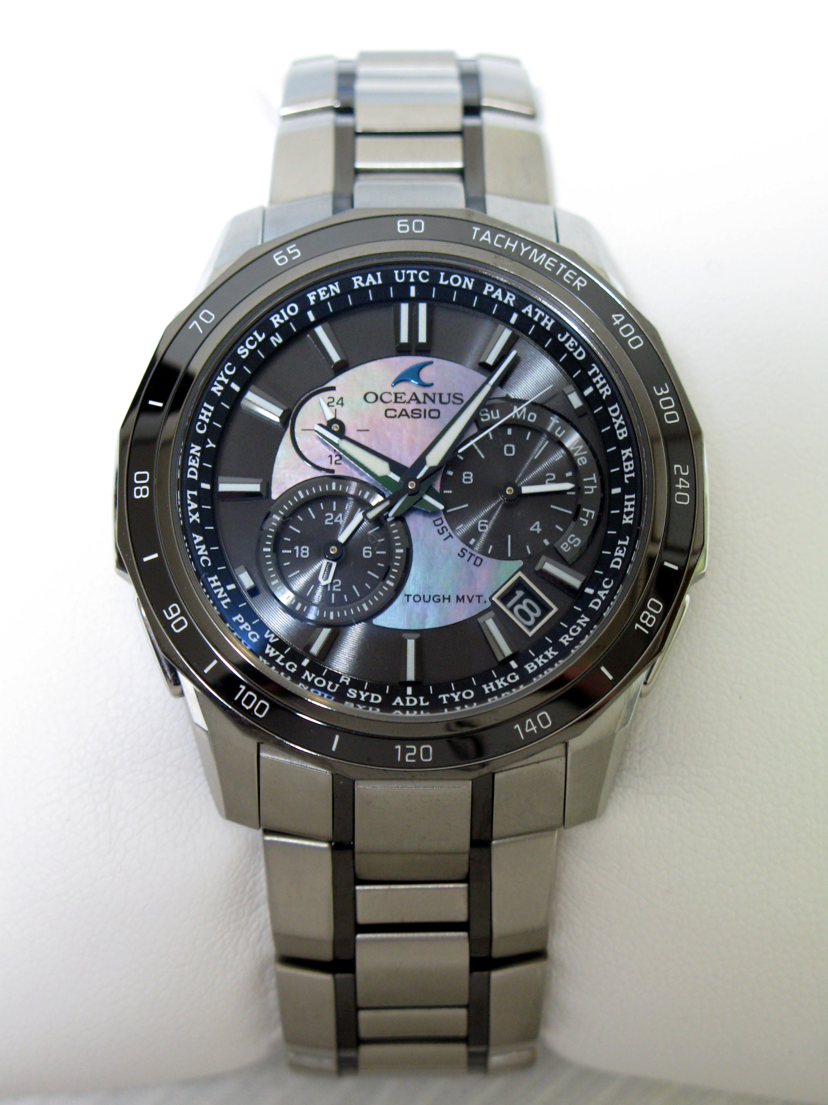 CASIO OCEANUS Manta OCW-S1350PC-1AJR